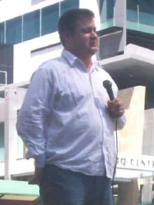 Les Thomas is the brother of Jack Thomas, the man dubbed 'Jihad Jack' by the media. Fly to this location (Requires Google Earth)